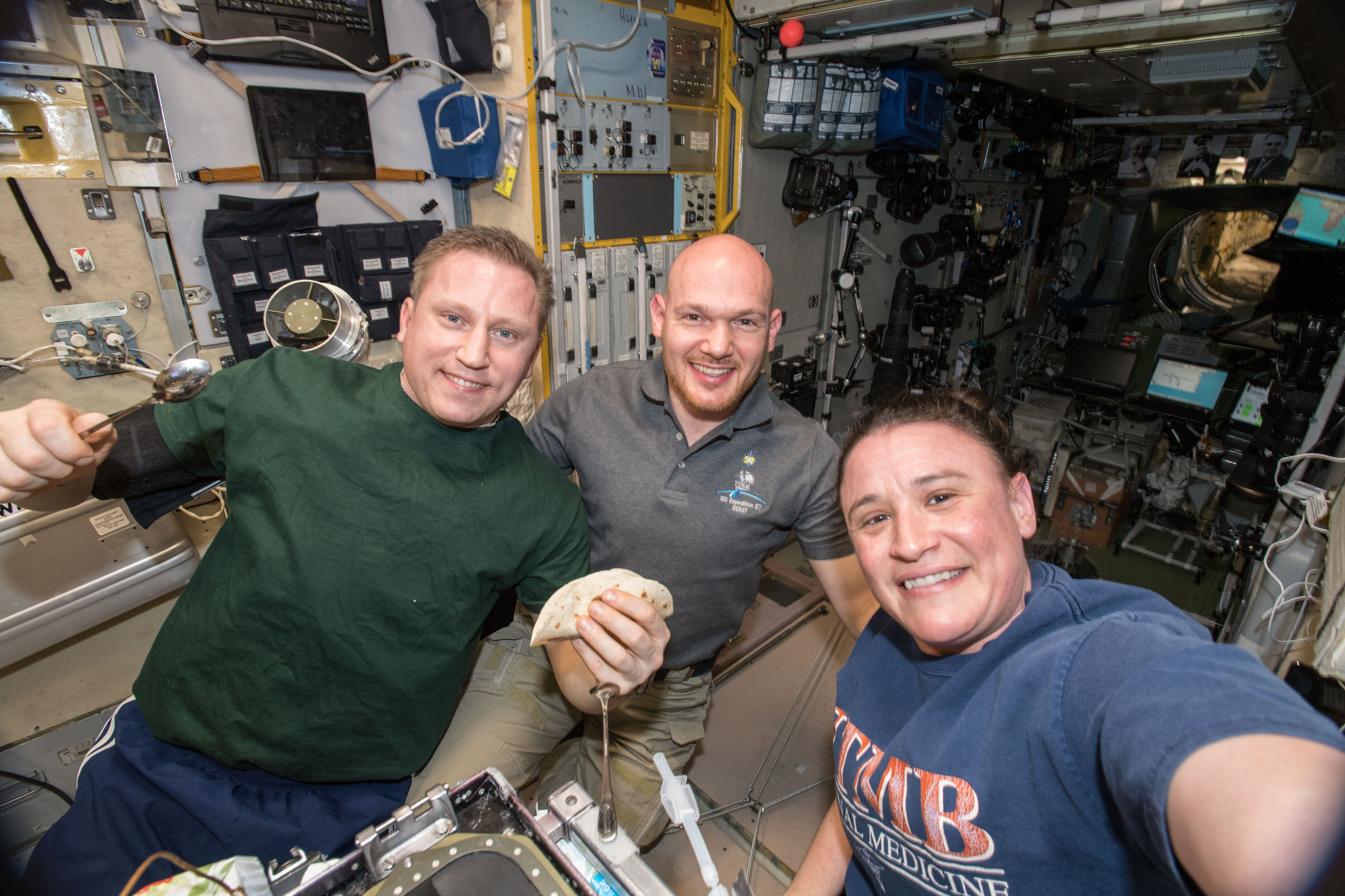 Flight Engineer Serena Auñón-Chancellor (right) takes a group selfie with her Expedition 57 crew mates (from left) Flight Engineer Sergey Prokopyev and Commander Alexander Gerst. The three-person crew was gathered for dinner in the Zvezda Service Module, part of the International Space Station's Russian segment.